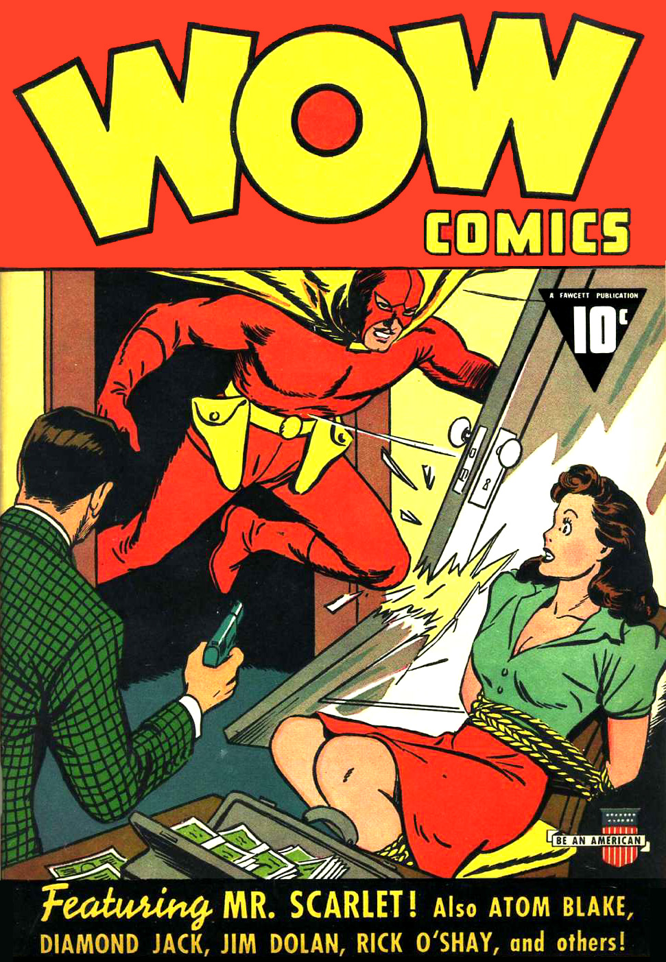 Art by C. C. Beck.